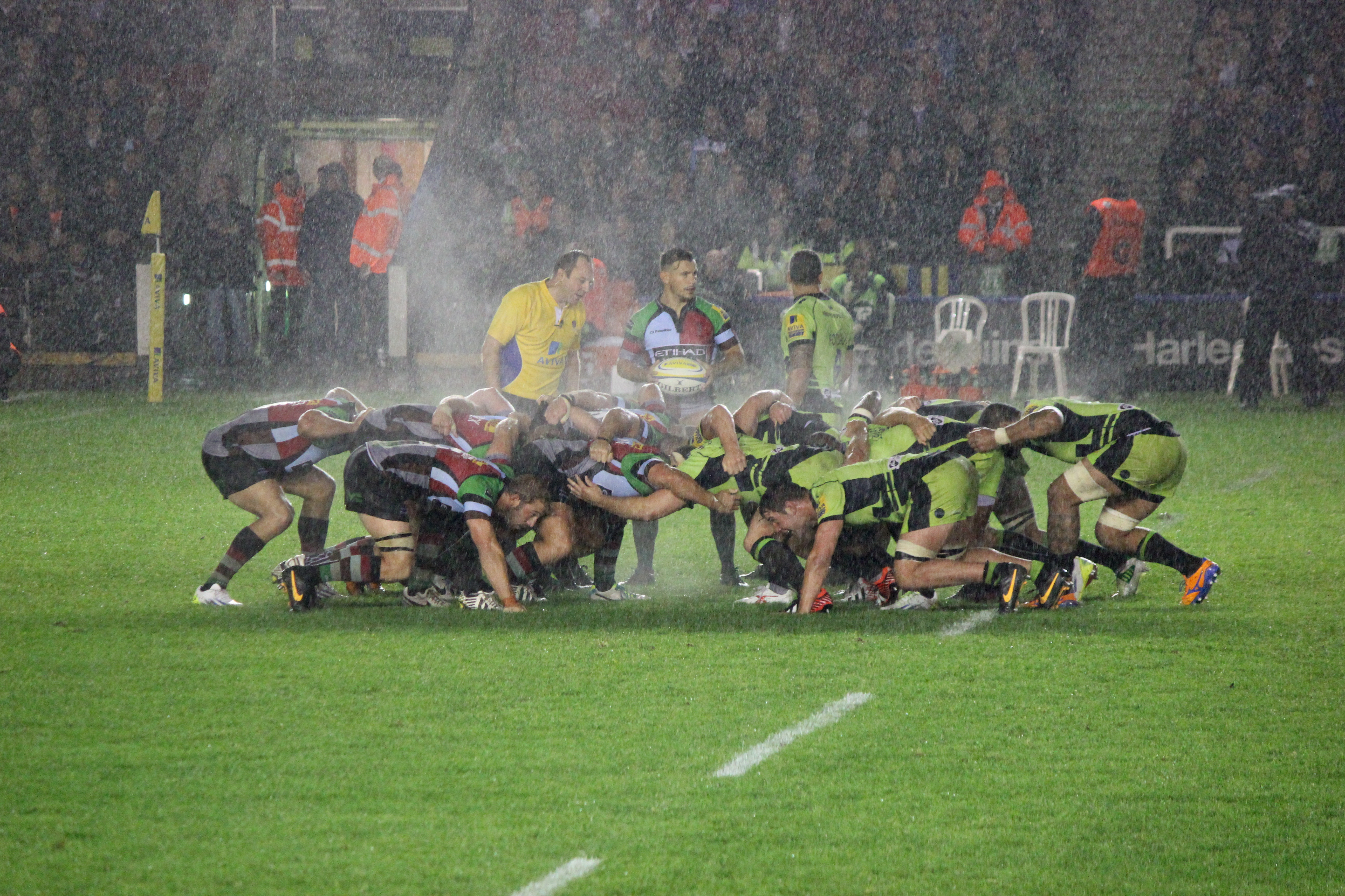 IMG_4536 Harlequins vs Saints: Round 2 of 2013-2014 English Premiership